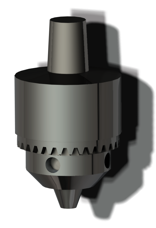 Jacobs taper is visible at the top of the chuck